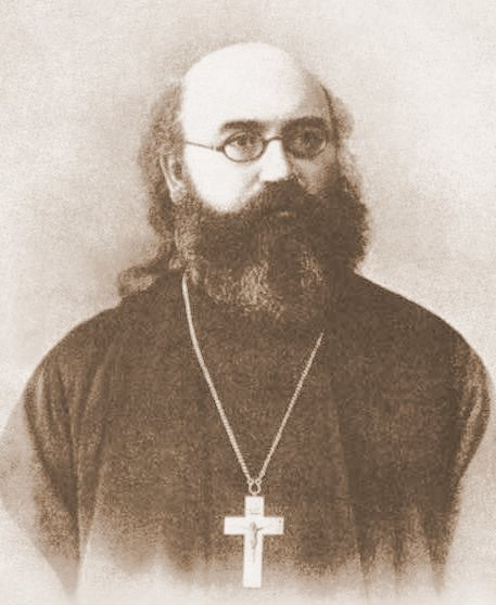 Ioann Vostorgov